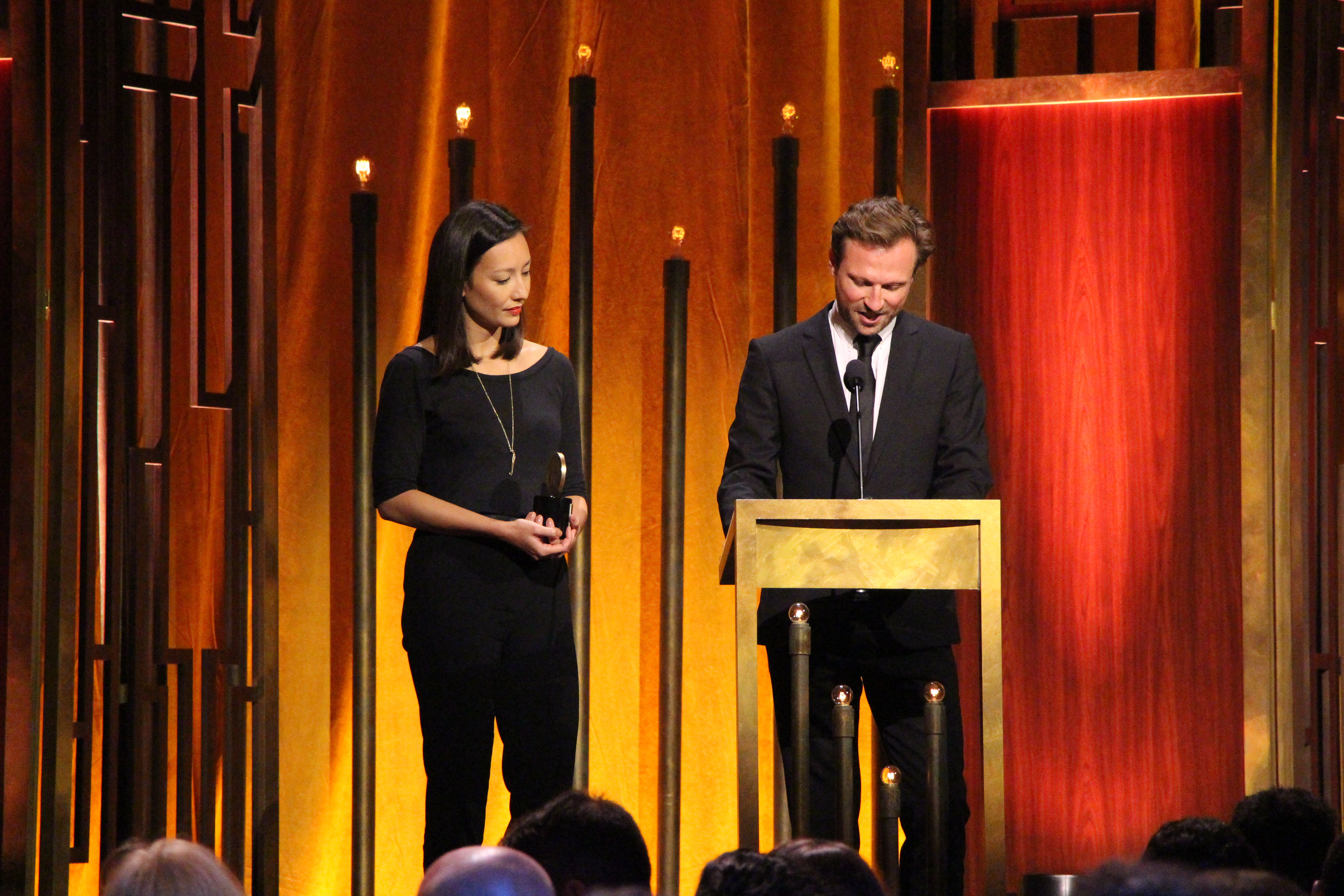 Producer Joanna Natasegara and Director Orlando von Einsiedel accept the Peabody Award for Virunga